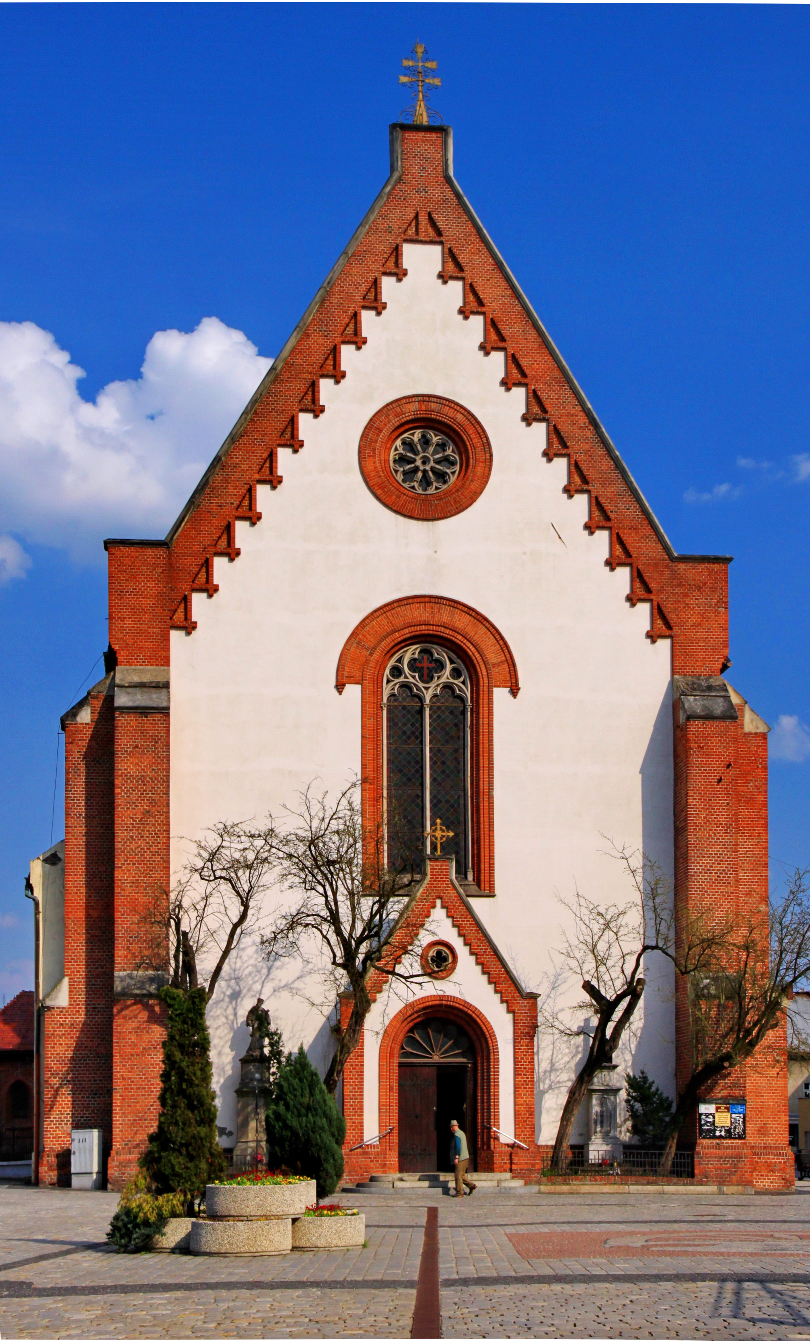 Racibórz, former Dominican Order church, now Saint James church, 13th century, 15th century, 1874, 1947